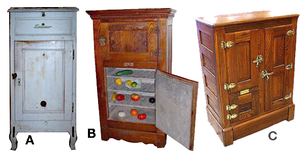 All three article versions in one photo, adapted for article by Mike Manning User:Magi Media 06:37, 29 May 2006 (UTC)Magi Media Based upon Image:Isskap front.jpg by User:Ekko.